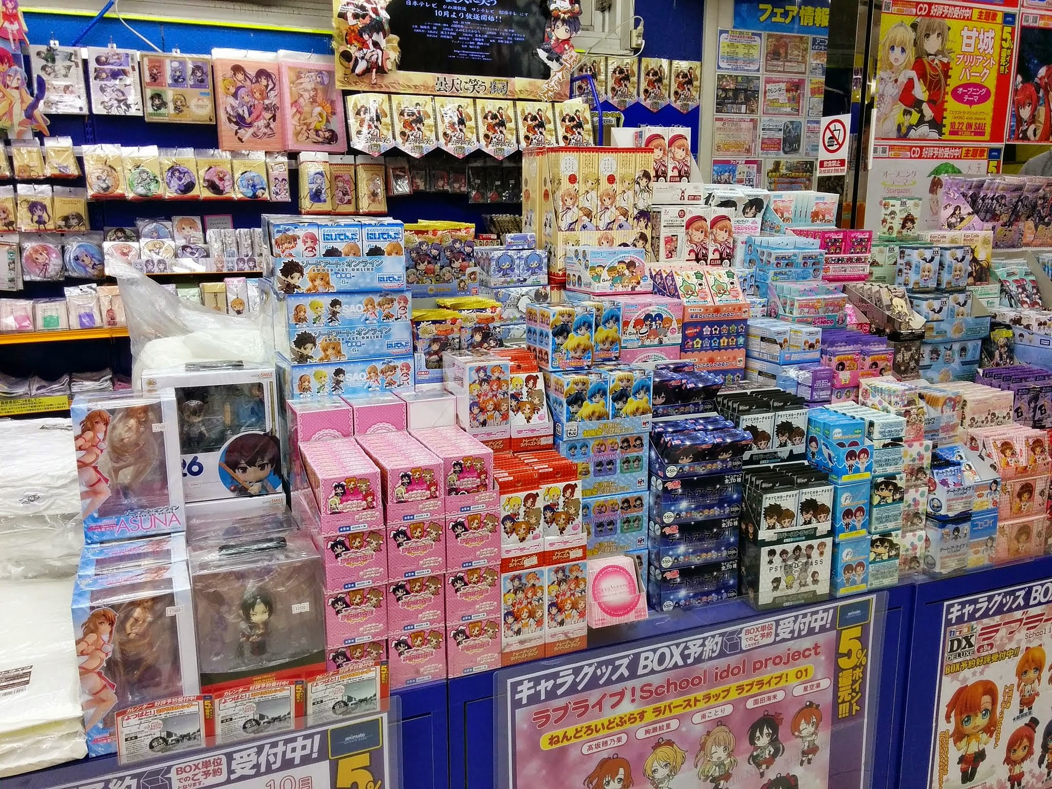 Anime figurine merchandise, a common feature in many shops in Akihabara